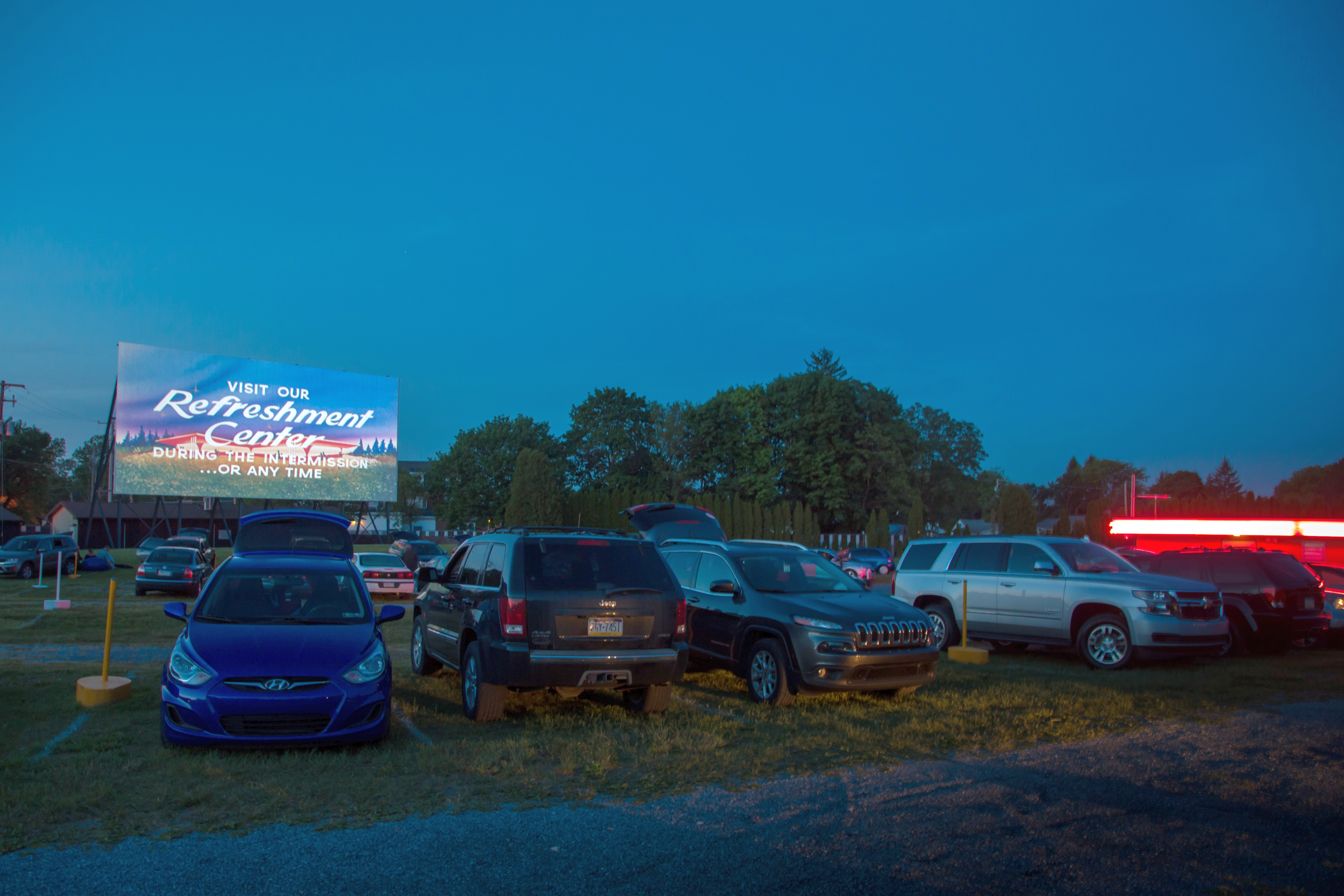 Shankweiler's Drive-In Movie Theatre, Orefield, Pennsylvania.